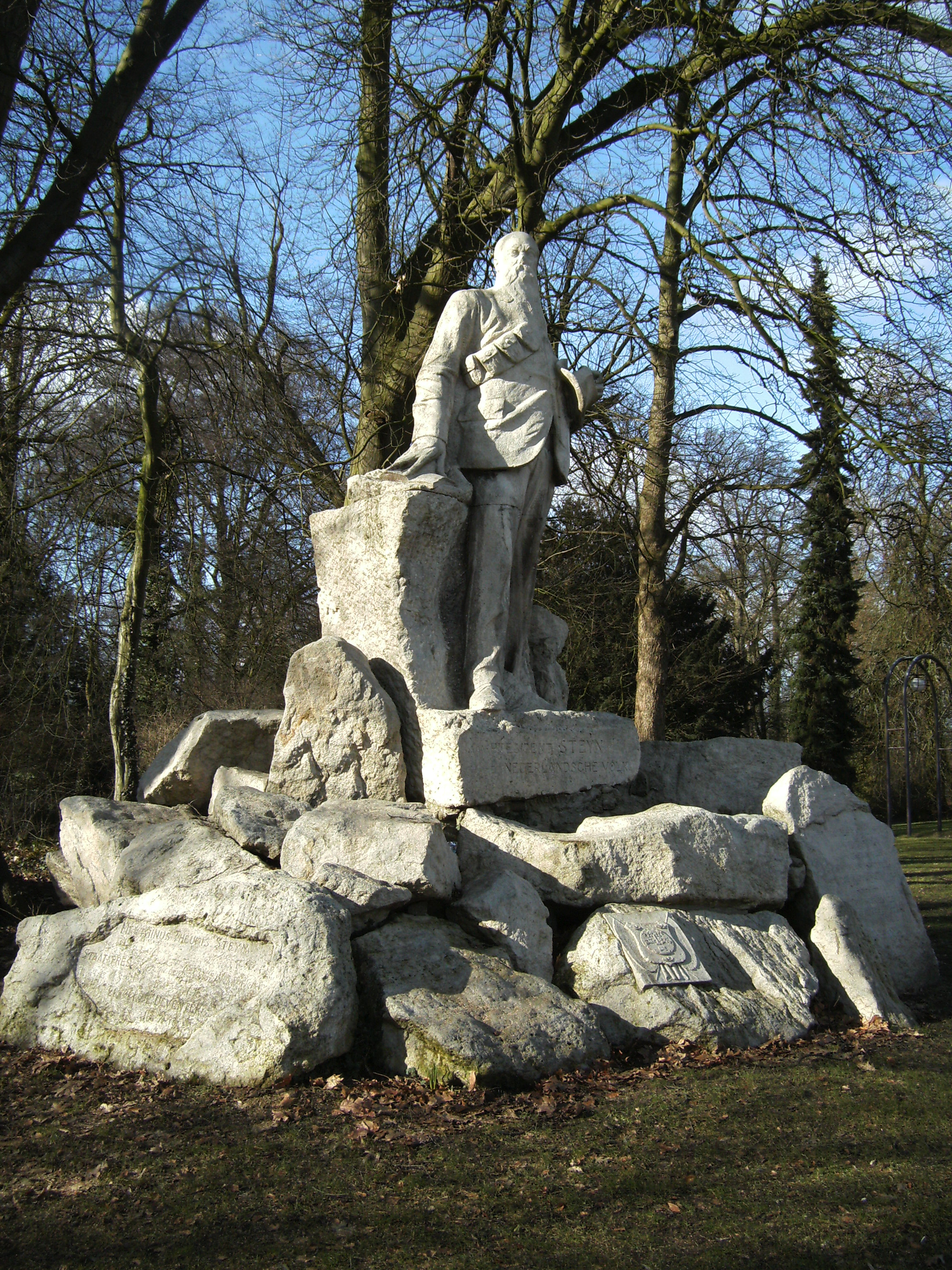 Statue of Marthinus Theunis Steyn, (President of Orange Freestate 1896-1902). Deventer, the Netherlands.